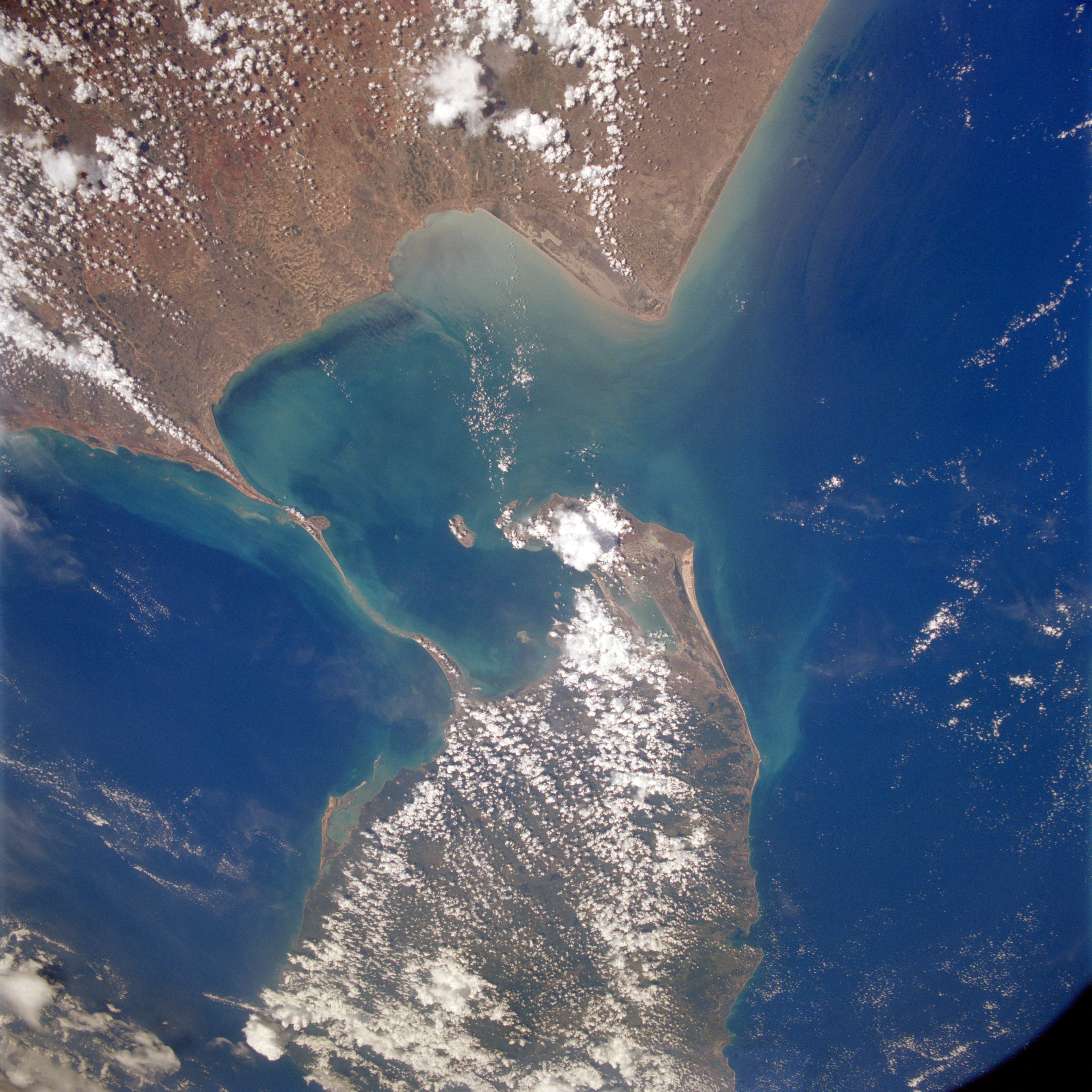 The Adam's Bridge as seen between India and Sri Lanka, from Space Shuttle Endeavour during STS-59.